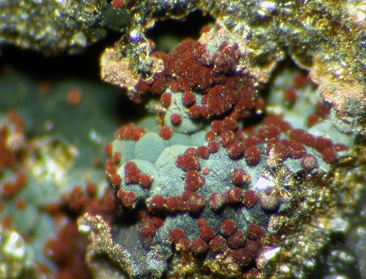 Robertsite, Beraunite Locality: Hagendorf South Pegmatite (Cornelia Mine; Hagendorf South Open Cut), Hagendorf, Waidhaus, Vohenstrauß, Oberpfälzer Wald, Upper Palatinate, Bavaria, Germany (Locality at ) Small reddish brown Robertsite spheres on Beraunite. Field of view 4mm. Specimen and photo Leon Hupperichs.